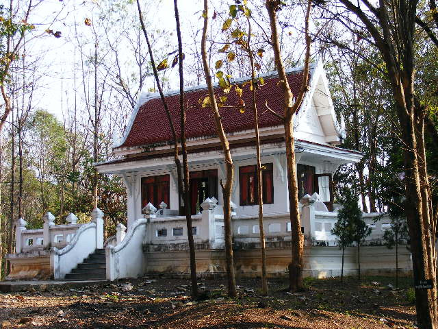 Spirit houses in Bo Lek Nam Phi (Bor Lek Nam Phi Folk Museum). Bo Lek Nam Phi, Ban Nam Phi, Nam Phi subdistrict, Amphoe Thong Saen Khan, Uttaradit Province, Thailand.